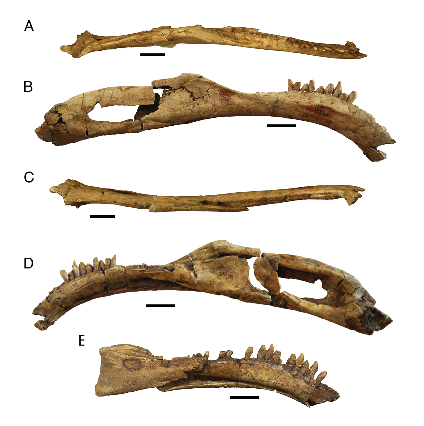 Right hemimandible of Segnosaurus galbinensis MPC-D 100/80 in (A) dorsal, (B) lateral, (C) ventral and (D) medial views. Left hemimandible in (E) medial view. Scale bar equals 3 cm.